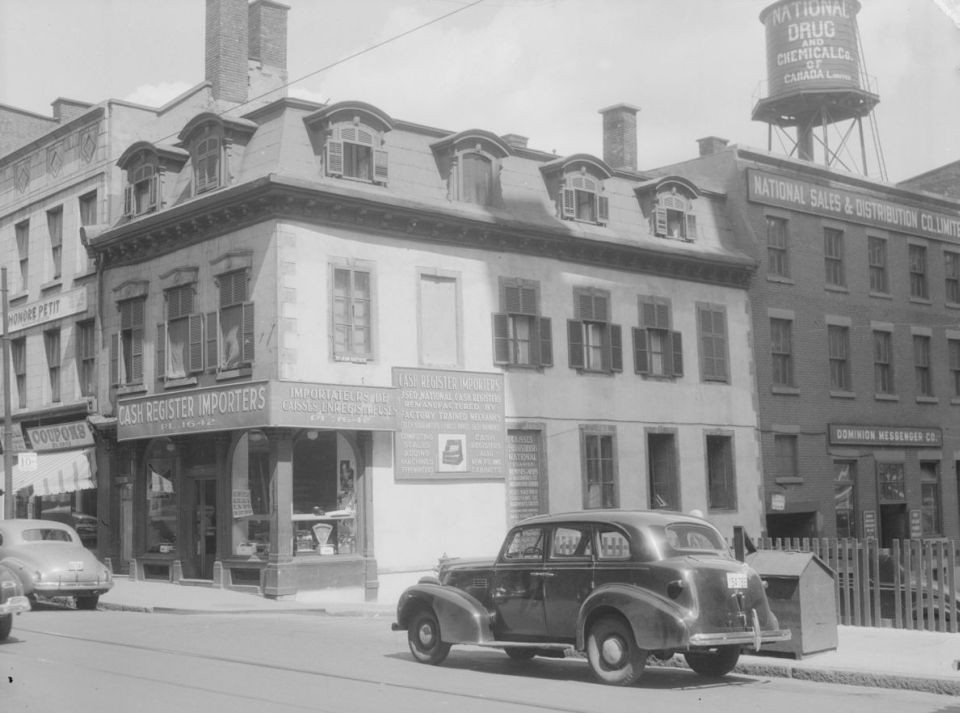 We see the company "Dominion Messenger Co." on the Saint-Jean-Baptiste Street and business cash registers importers of Notre-Dame Street in Old Montreal.